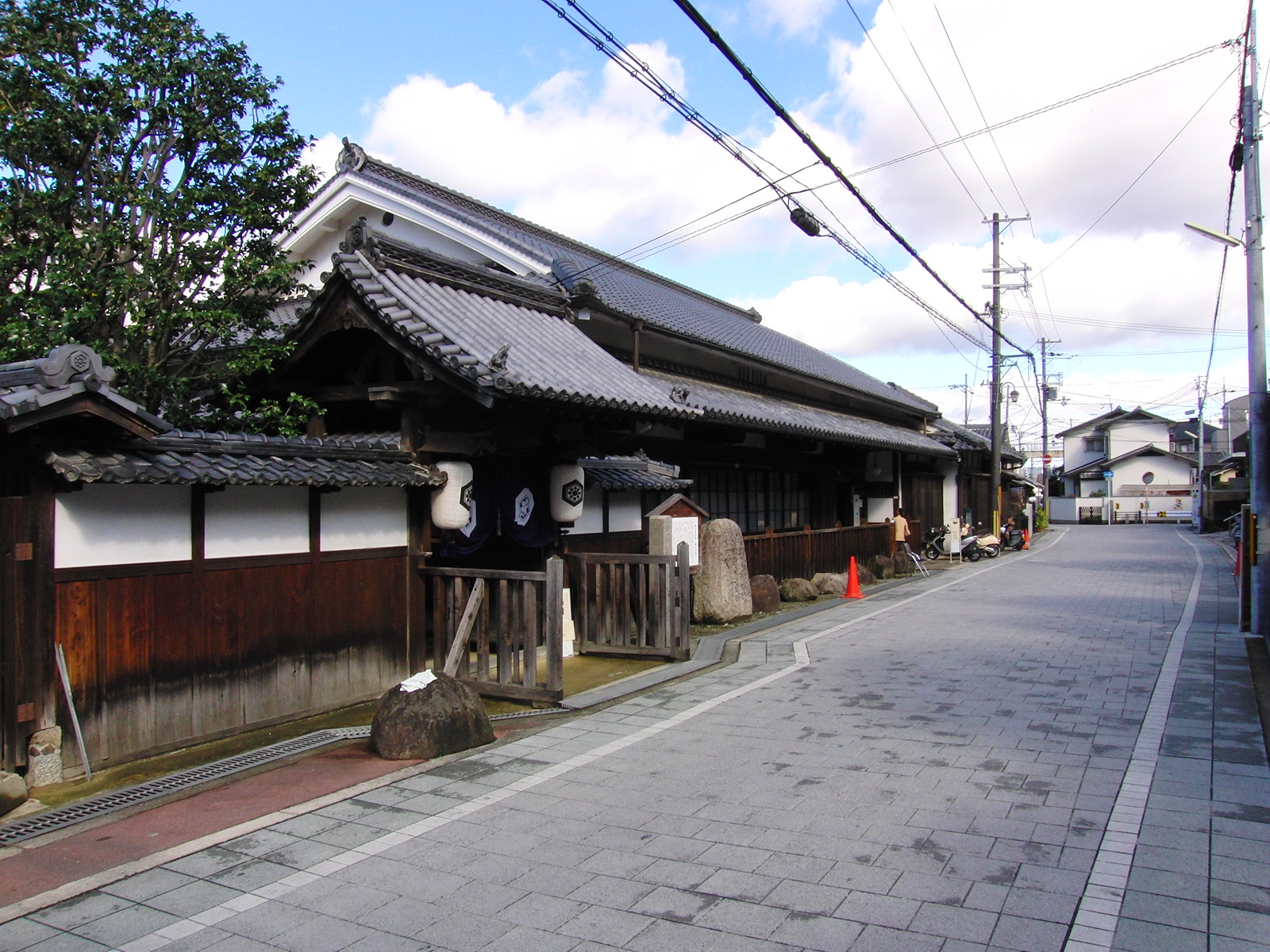 Koriyama-shuku honjin or "Tsubaki no honjin" located on Saigoku kaido (Ibaraki, Osaka, Japan)